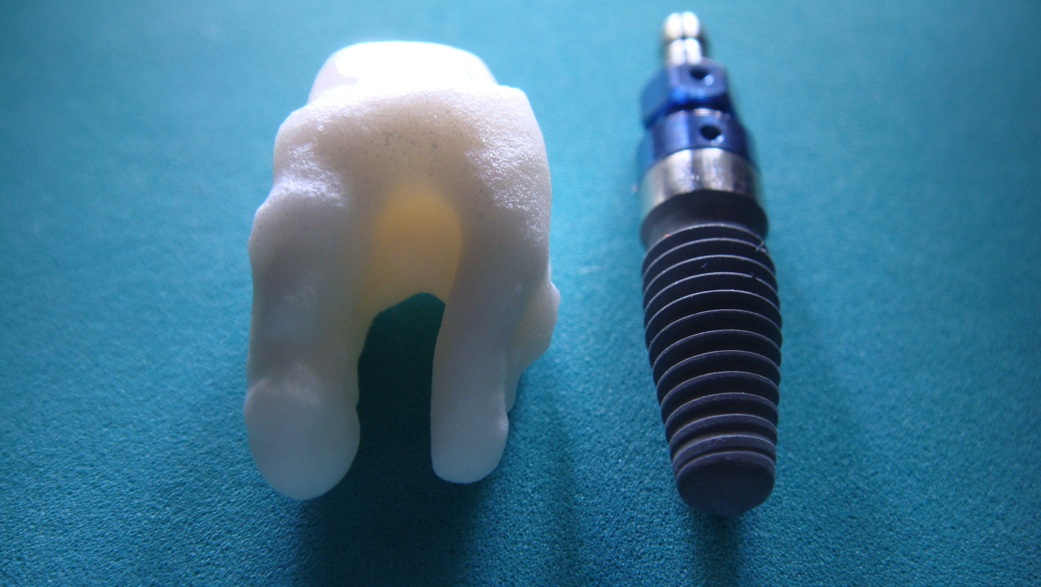 The picture shows a truly anatomic ceramic multi-rooted dental implant (RAI- root analogue implant) next to a common titanium screw type implant.